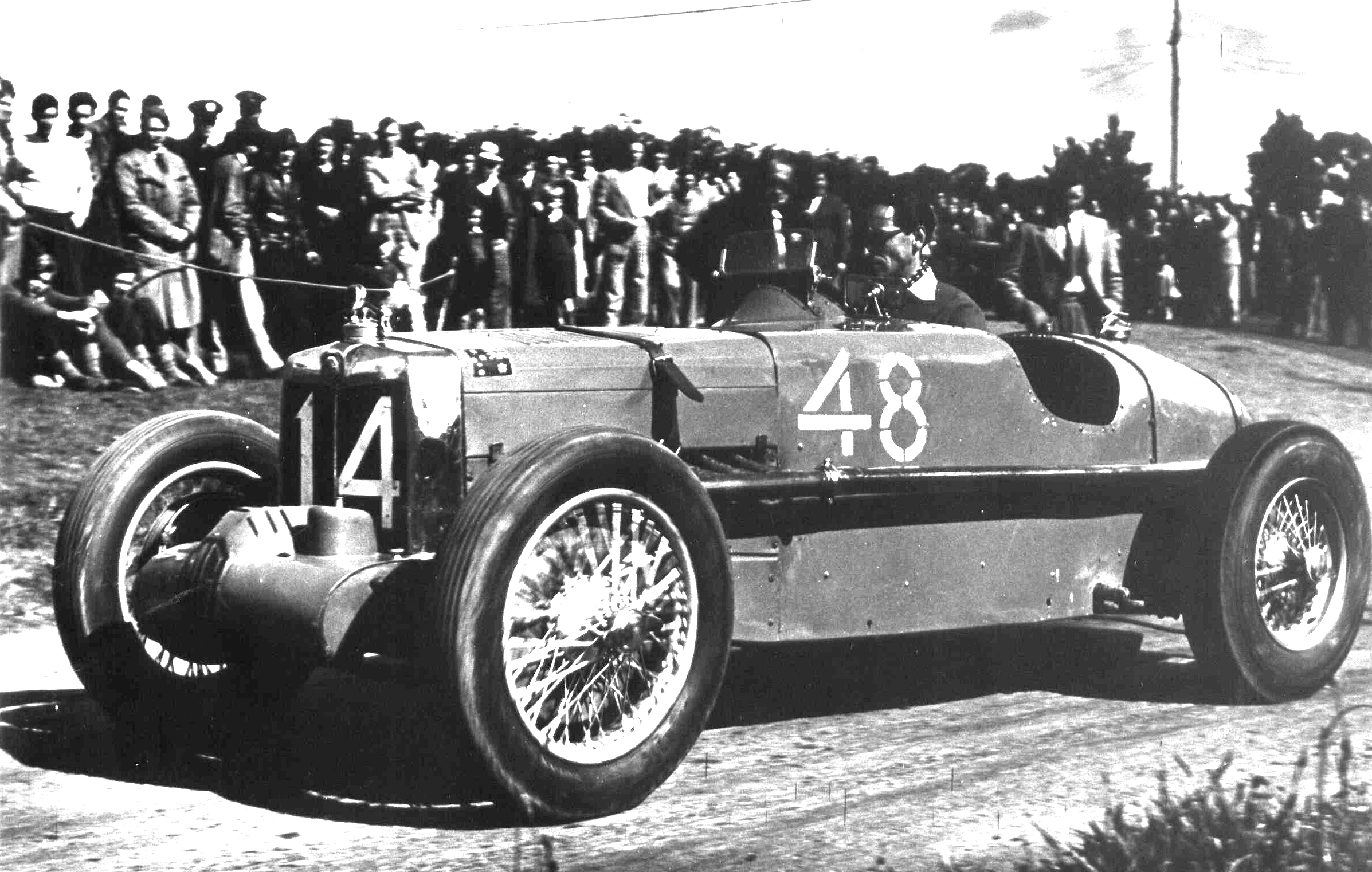 The MG K3 Magnette of John Barraclough at the Australian Hillclimb Championship meeting at Rob Roy Hillclimb in Victoria, Australia on 1 November 1949. Barraclough won the title.